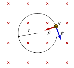 Movimento de uma partícula com carga negativa dentro de um campo magnético uniforme, apontando para dentro da folha.